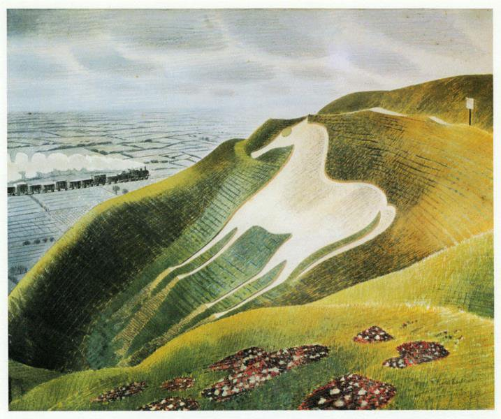 Work by Eric Ravilious